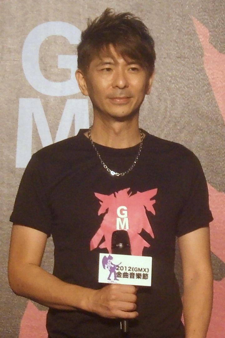 Ric Jan at 2012 Golden Music Exposition.